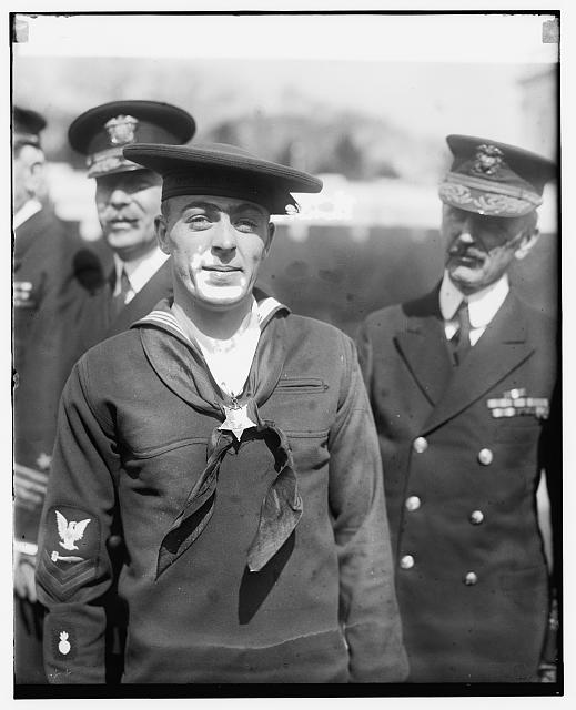 Title: Henry Breault, 3/8/24 Date Created/Published: [19]24 March 8. Medium: 1 negative : glass ; 4 x 5 in. or smaller Reproduction Number: LC-DIG-npcc-10707 (digital file from original) Rights Advisory: No known restrictions on publication. Call Number: LC-F8- 29294 [P&P] Repository: Library of Congress Prints and Photographs Division Washington, D.C. 20540 USA Notes: Title from unverified data provided by the National Photo Company on the negative or negative sleeve. Gift; Herbert A. French; 1947. This glass negative might show streaks and other blemishes resulting from a natural deterioration in the original coatings. Temp note: Batch three.